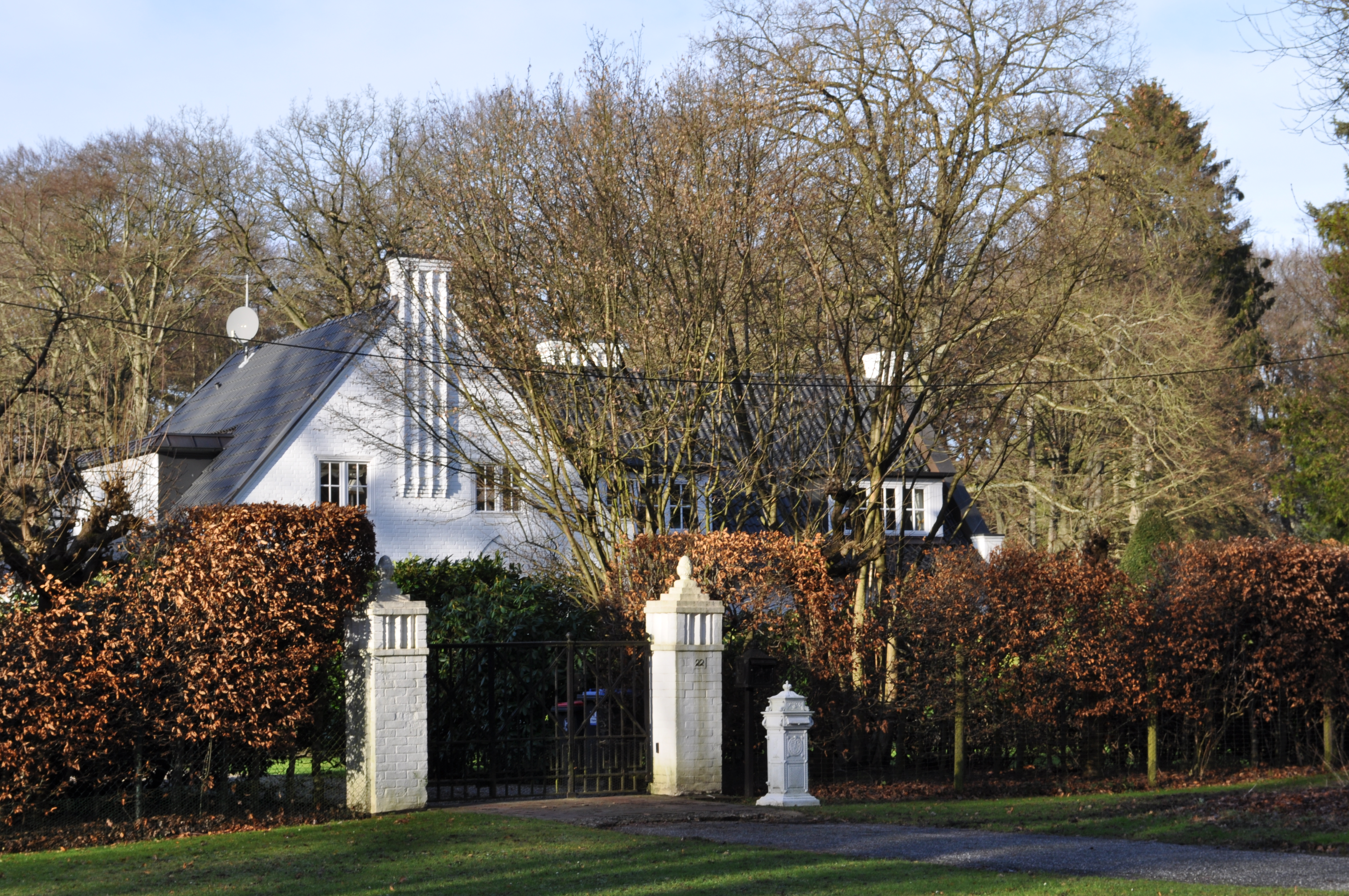 Haselknick 22 in Hamburg-Wohldorf-Ohlstedt This is a photograph of an architectural monument.